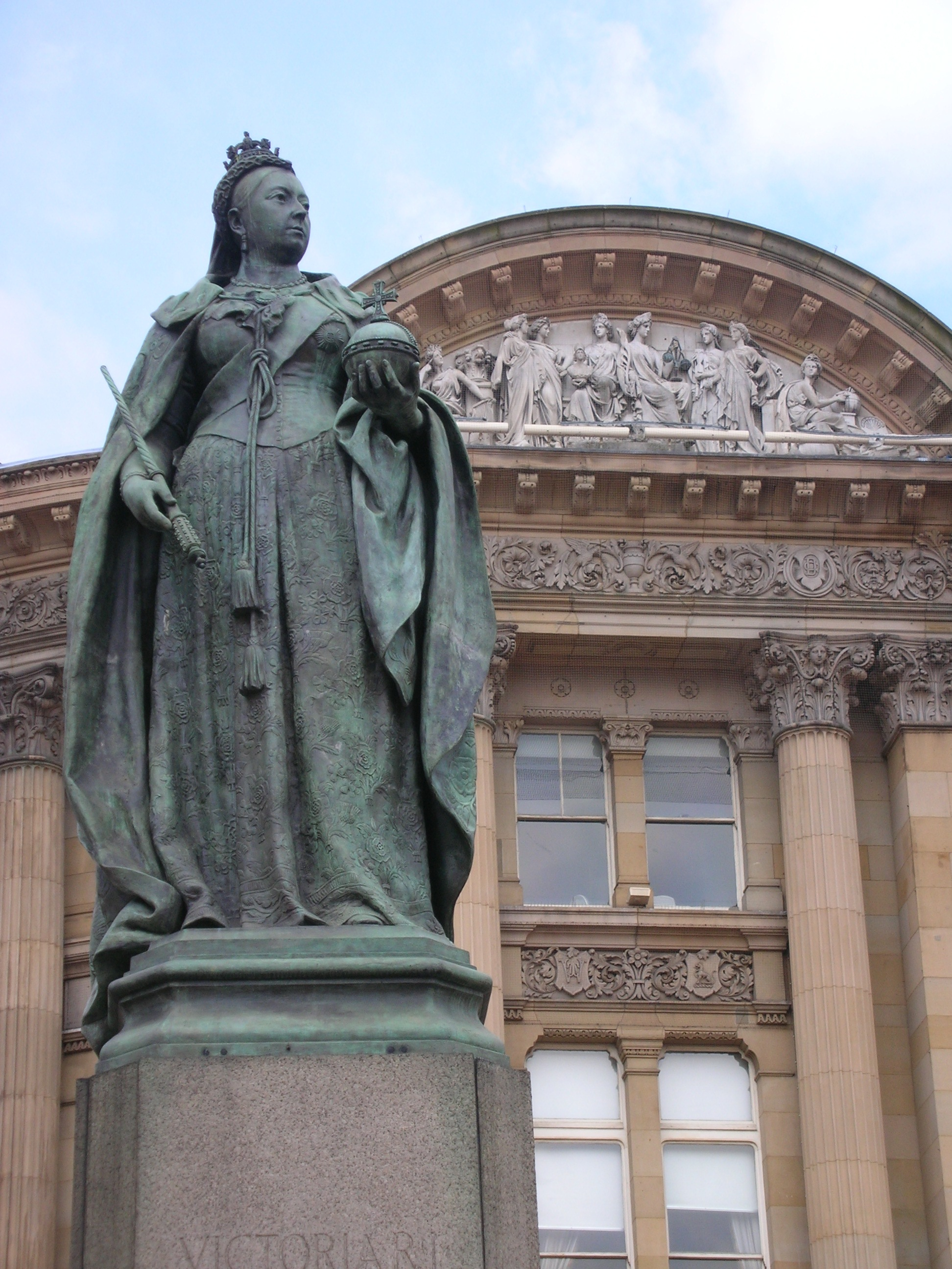 Statue of Queen Victoria, Victoria Square, England. Original donated by W. H. Barber and designed by Thomas Brock in marble, unveiled 10 January 1901, was an enlarged replica of his statue at Worcestershire Hall, Worcester. Recast in bronze 1951 by William Bloye. Photographed by me. Oosoom